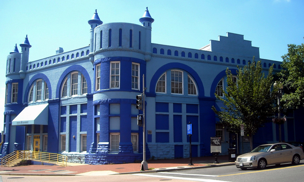 The "Blue Castle" located at 770 M Street, SE in the Navy Yard neighborhood of Washington, D.C. Designed by architect Walter C. Root in 1891, the Romanesque Revival building was originally known as the Washington and Georgetown Railroad Car House (commonly referred to as the Navy Yard Car Barn). It is situated directly across the street from the Washington Navy Yard's Latrobe Gate. Blue Castle was added to the National Register of Historic Places on November 14, 2006.